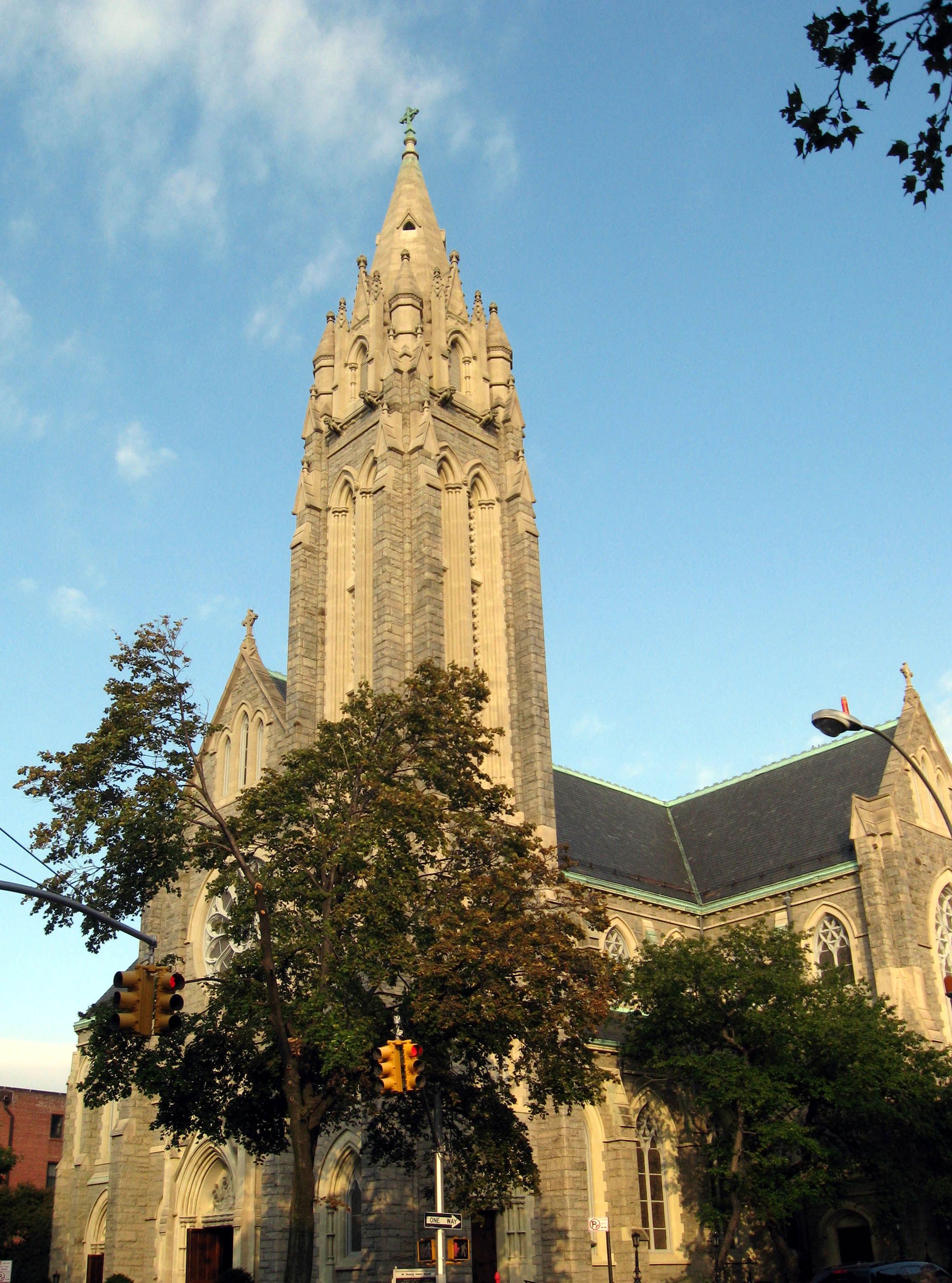 Looking up and east across 6th Avenue and Carroll Street at the Church of St Francis Xavier on a sunny late afternoon for WTM